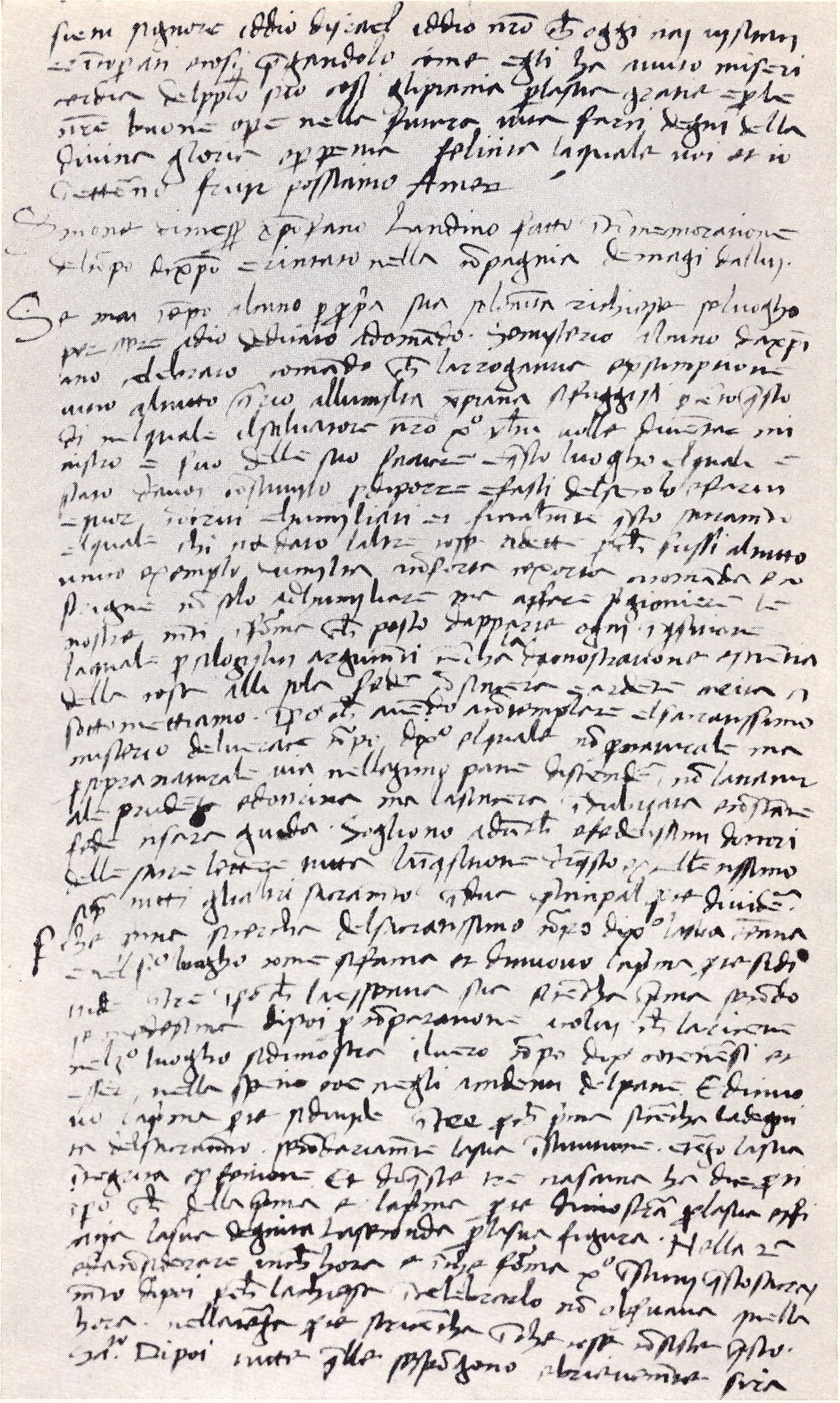 The first page of Landino’s Holy Thursday sermon in the manuscript Florence, Biblioteca Nazionale Centrale, Magliabechi XXXV 211, fol. 126v.